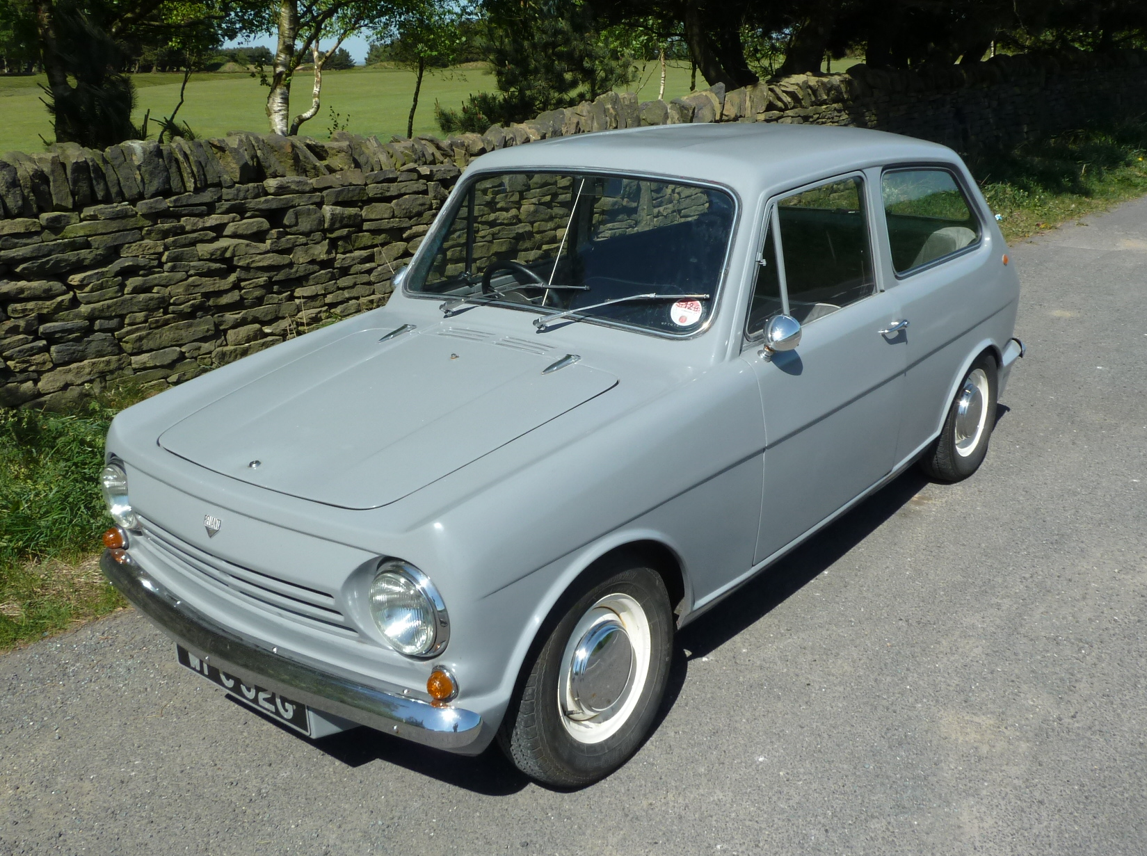 1969 Reliant Rebel 700 (DVLA) first registered 3 January 1969, 850cc Crosland Moor, Huddersfield